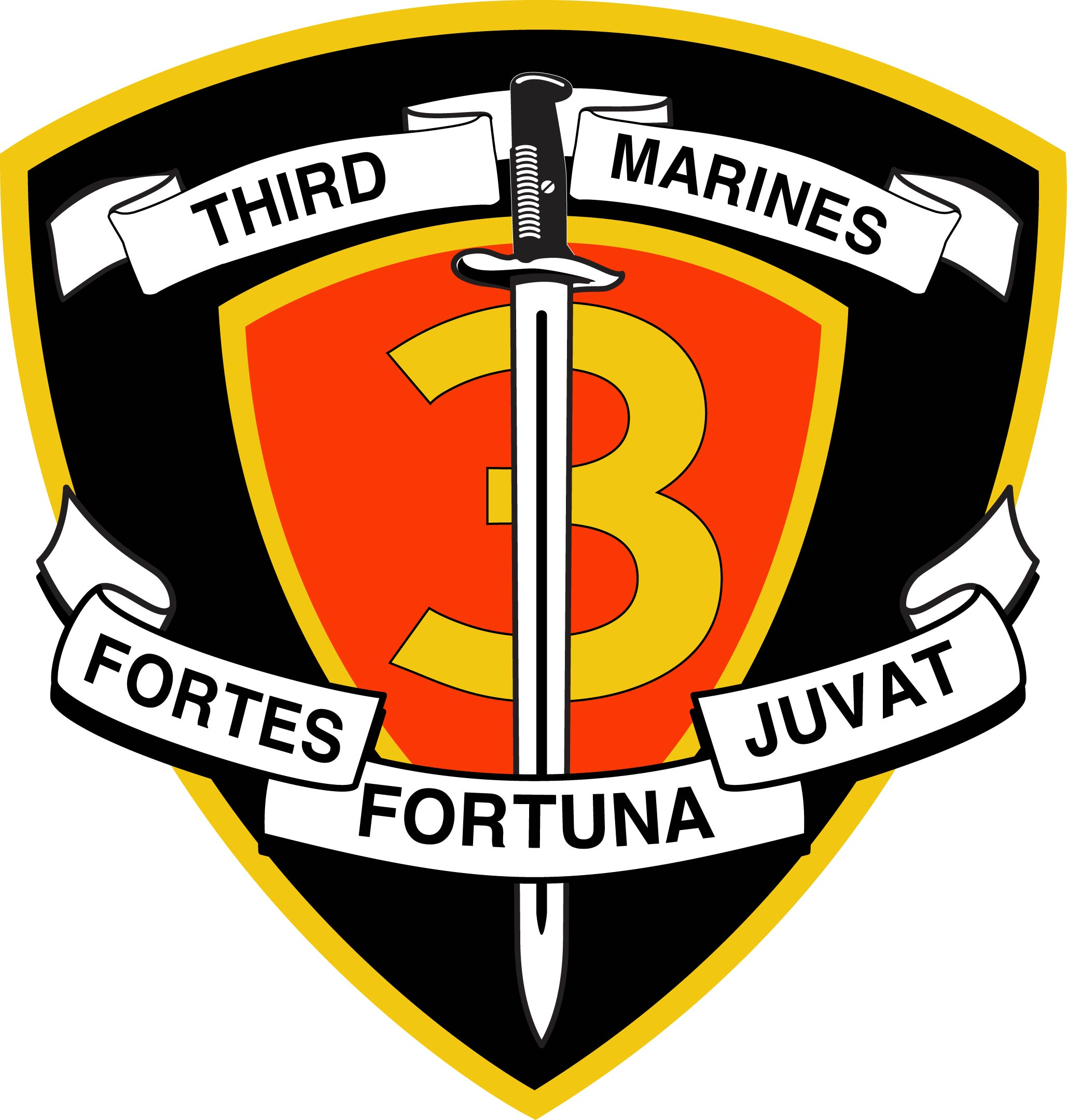 This is the updated 2011 crest for the 3rd Marine Regiment.